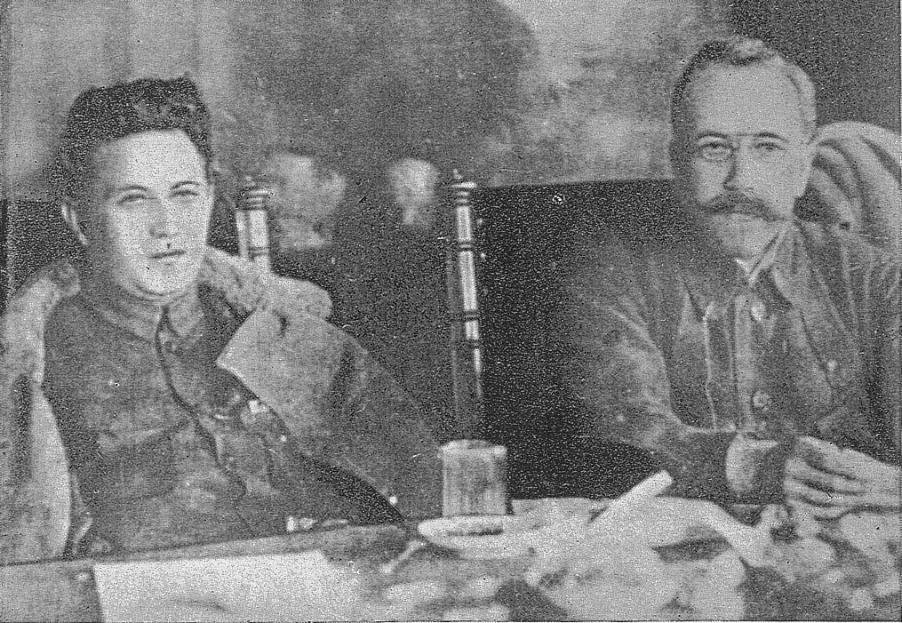 Grigory Zinoviev(left) and Lev Kamenev(right)